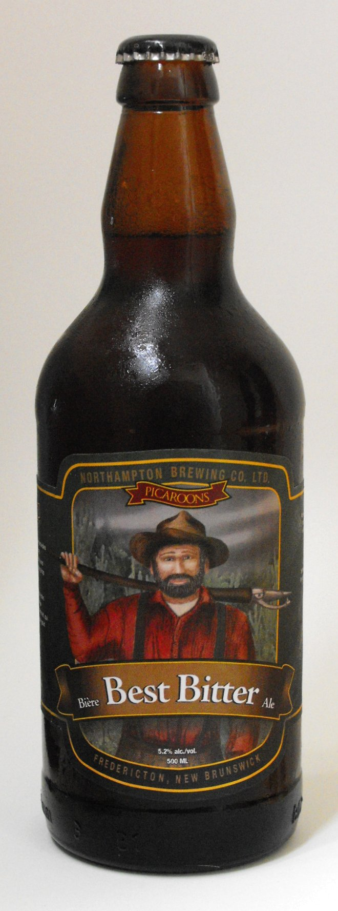 Photograph of Picaroons Best Bitter, a Canadian microbrewery beer from Fredericton, New Brunswick